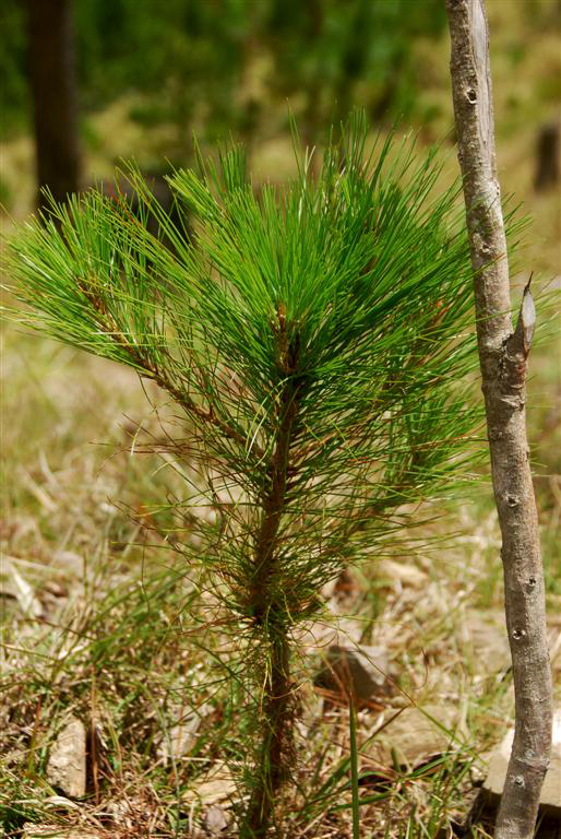 Pinus kesiya seedling, Mt. Ugo, Cordillera Central, Luzon, Philippines; approx. 16°19'N 120°48'E.